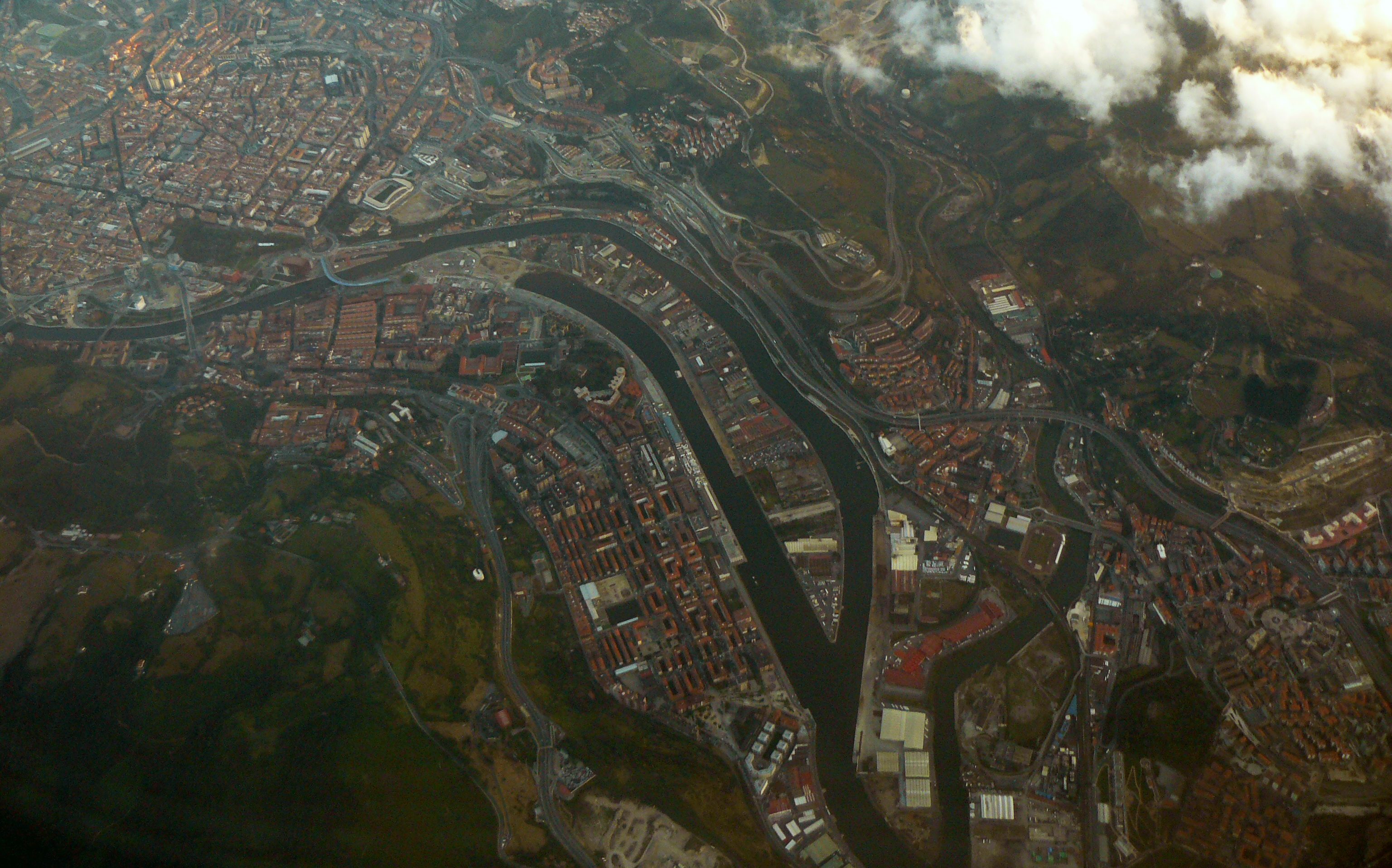 An aerial view of Bilbao as seen from the Bergamo-Santander Ryanair flight. The peninsula of Zorrozaurre is featured in the lower right.